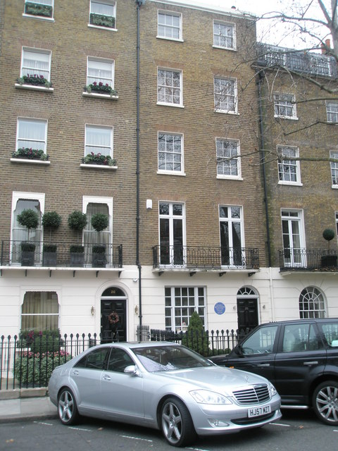 Former home of George Bentham in Wilton Place A famous botanist George_Bentham